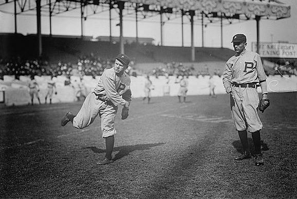 Otto Knabe and Erskine Mayer, players Philadelphia Phillies